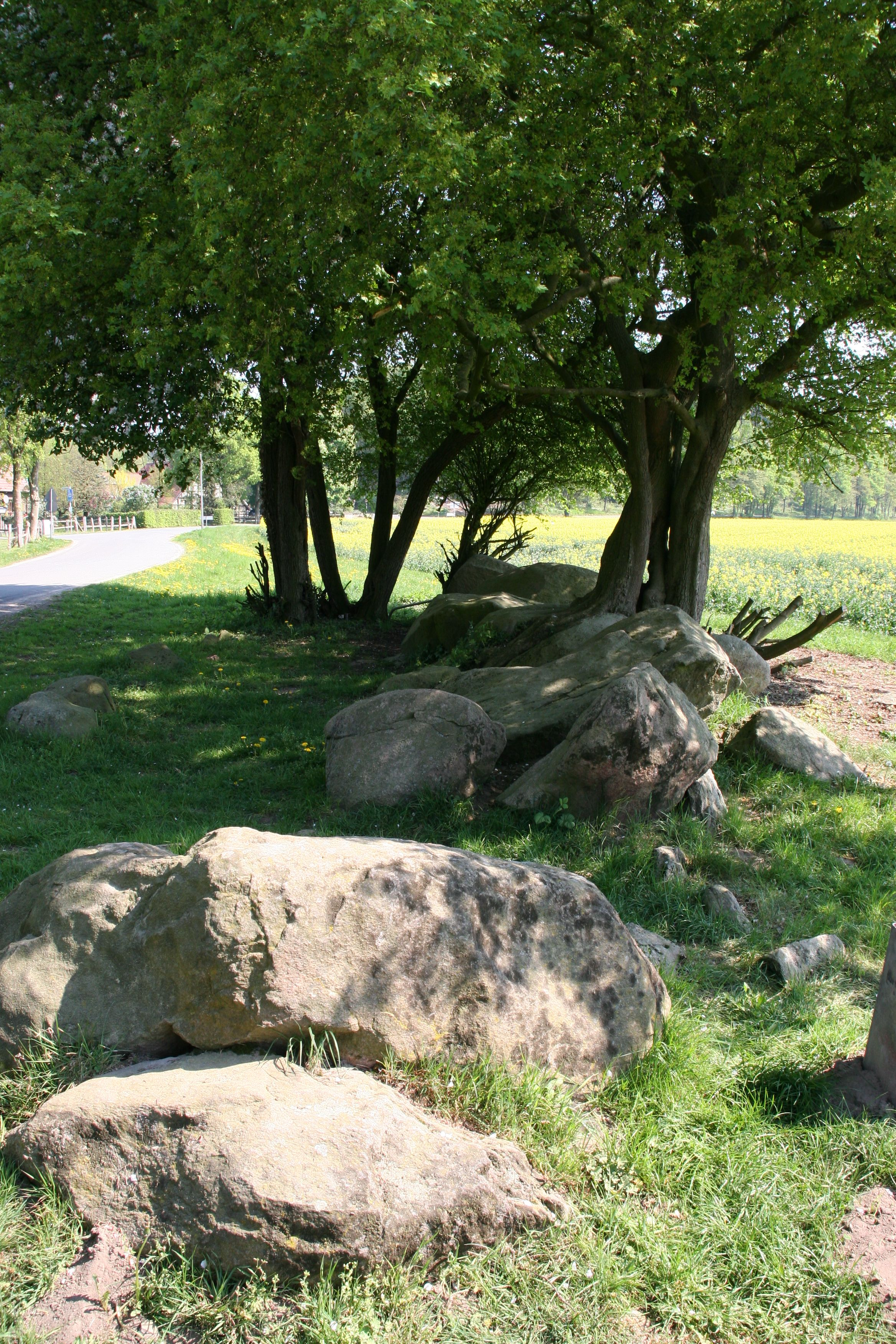 Osnabrück: megalithic chambered tomb "Östringer Steine I"